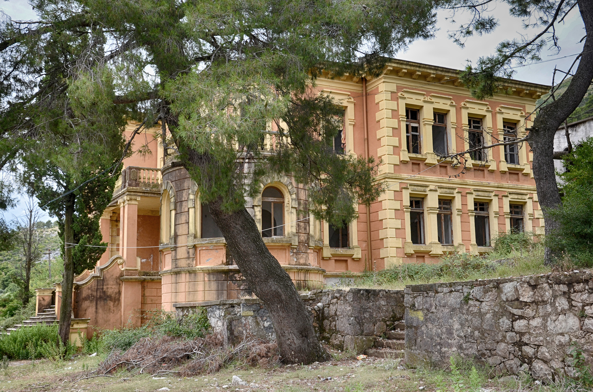 The Zogu Villa in Shirokë